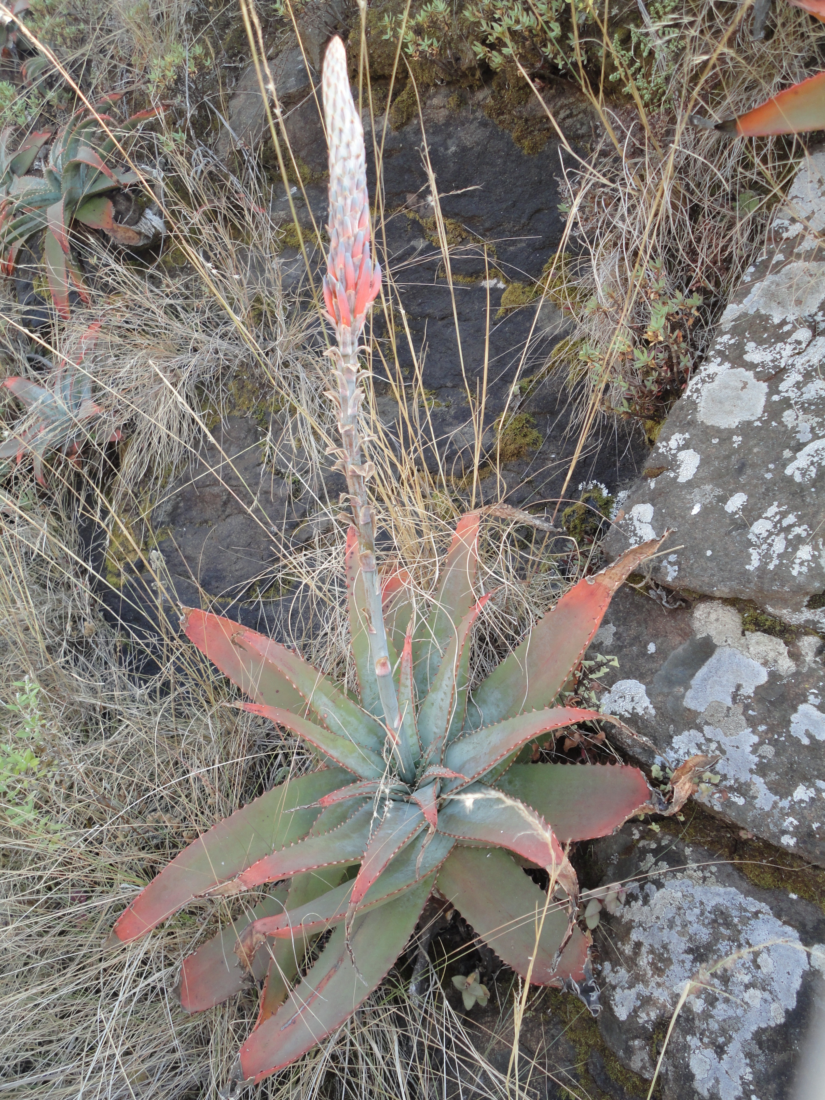 Habit of a Book Aloe, near Louwsburg, KwaZulu-Natal